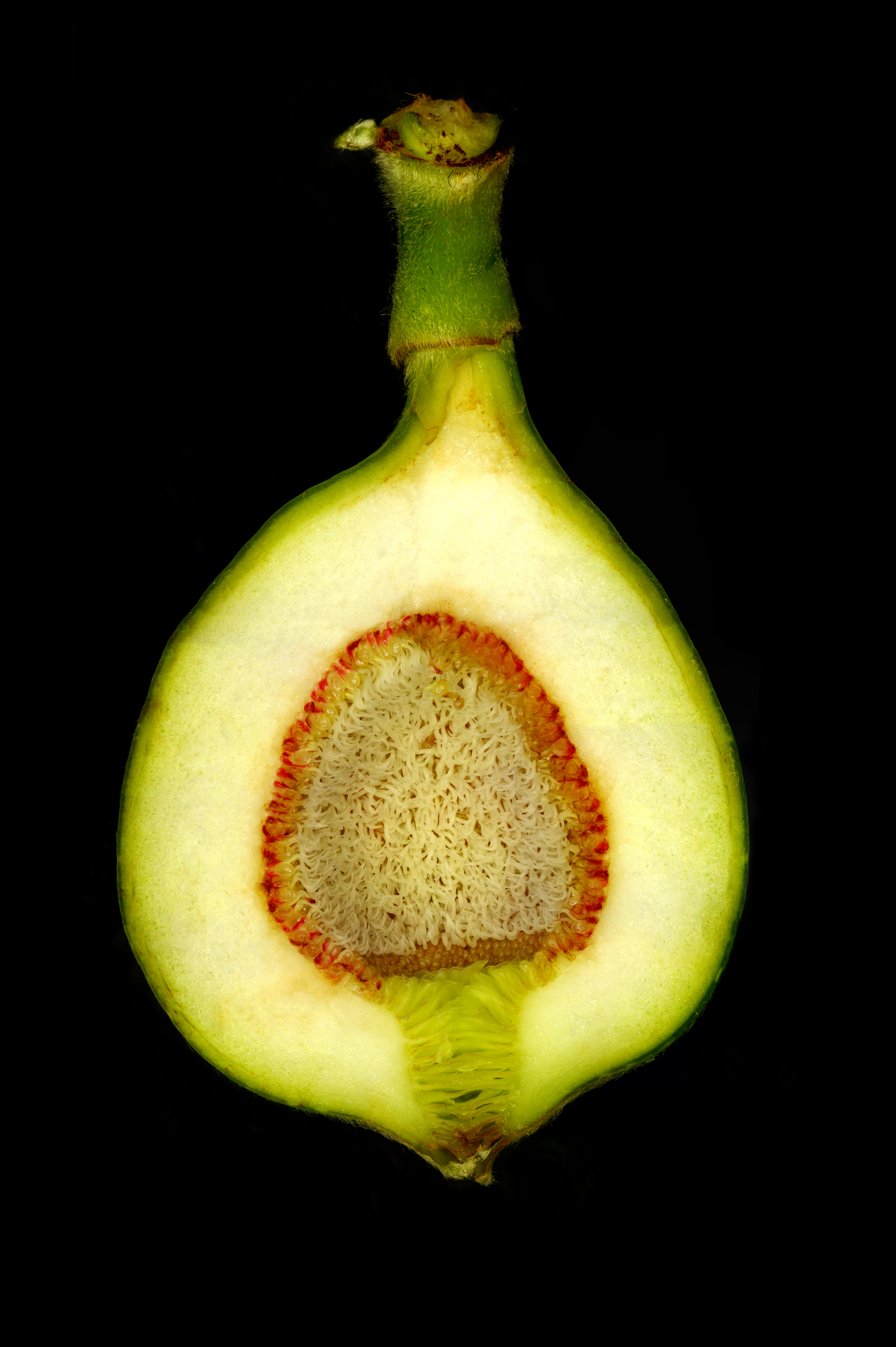 Longitudinal section through a creeping fig syconium (Ficus pumila L.) (Moraceae).